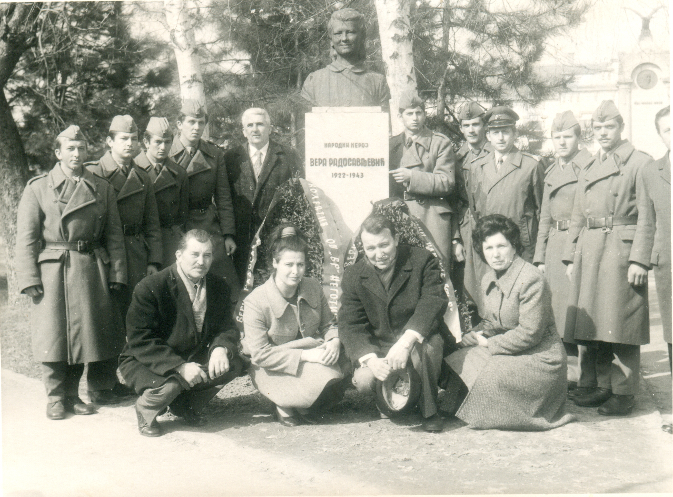 Laying wreaths at the monument of national hero Vera Radosavljevic Nada in Negotin 1975. Srpski (latinica): Polaganje venaca na spomenik narodnom heroju Veri Radosavljevic Nadi u Negotinu 1975.